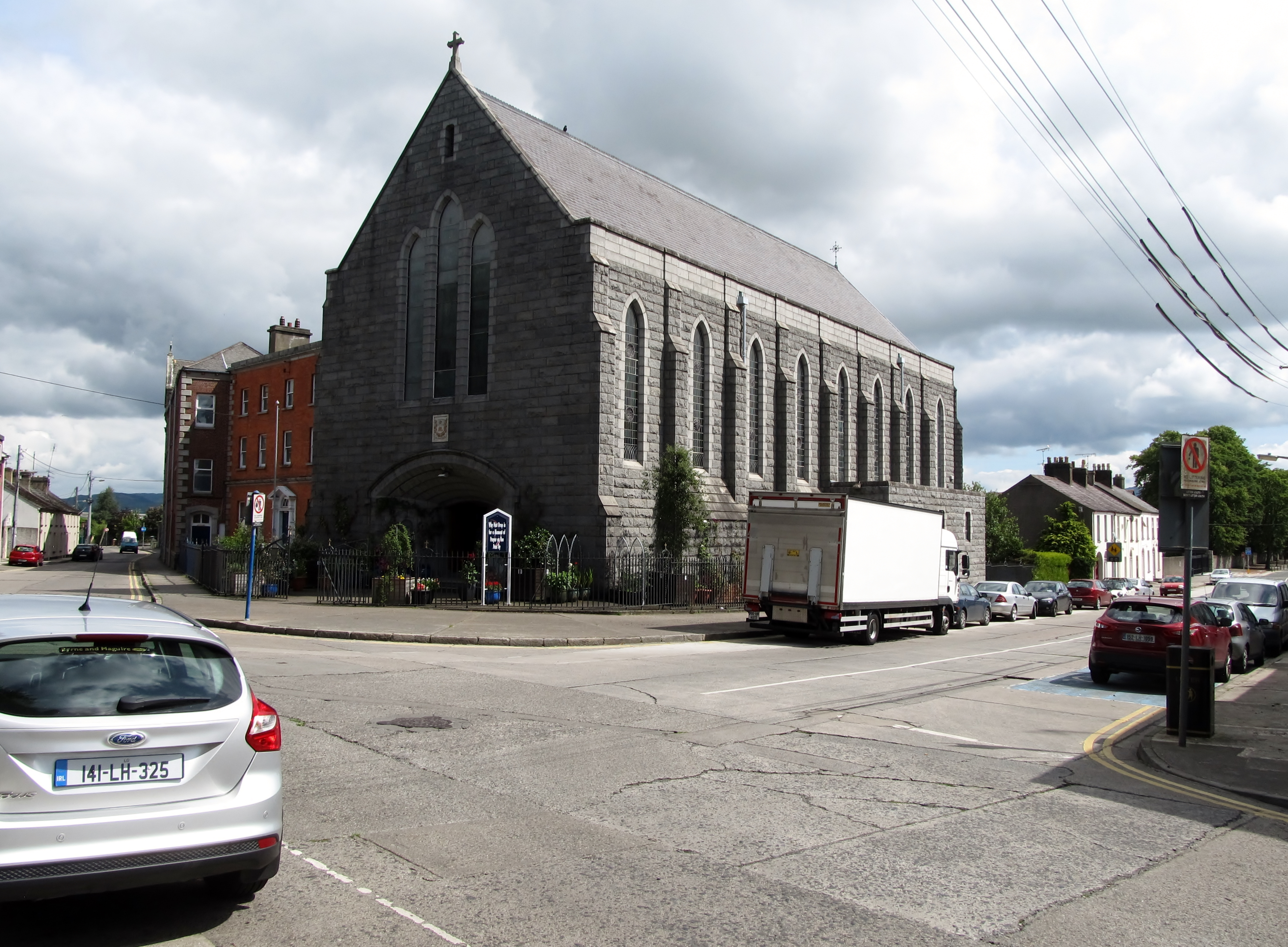 St Mary's Chapel. Chapel of St Mary's College, Dundalk, situated at the junction of St Mary's Road and Nicholas Street.